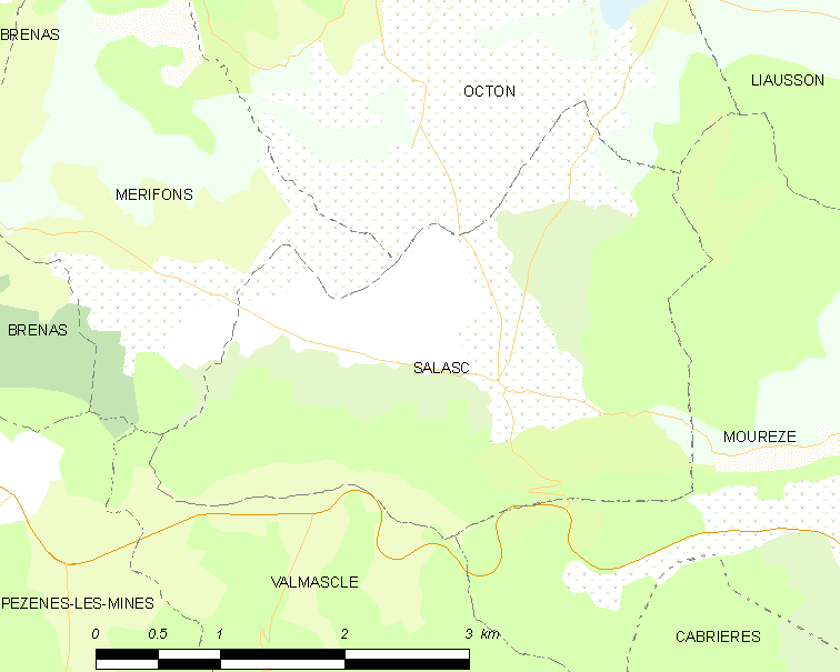 Map commune FR insee code 34292.png - Salasc